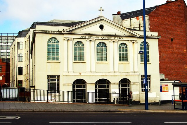 St Michael's Catholic Church in New Meeting Street, Birmingham, England was opened in 1802 as a Unitarian chapel, successor to the original New Meeting which was burned down (along with the home of its minister, the chemist Joseph Priestley) in the riots of 1791. It is designed as a simple rectangular meeting house, with a three-sided gallery supported on timber columns. The church (seen here from Moor Street) now serves the Polish community.